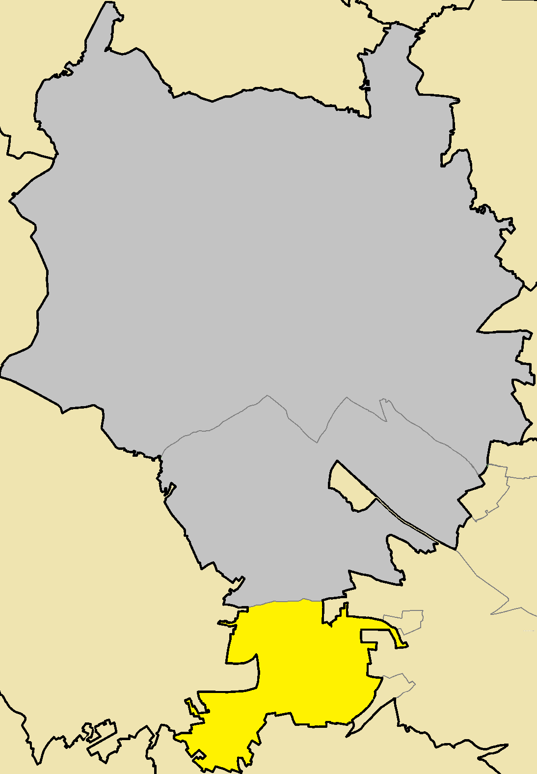 Vlachos in Aradippou Municipality.